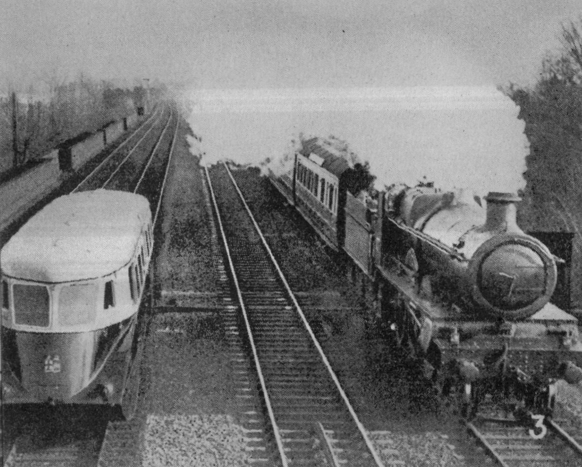 The Great Western Railway streamlined railcar, put into regular use in 1934 Approximate date of photograph: 1934